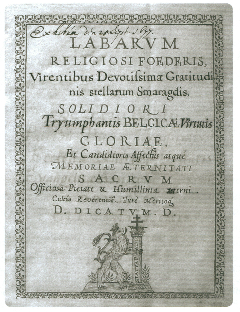 Title page of the book of Csúzi Cseh Jakab